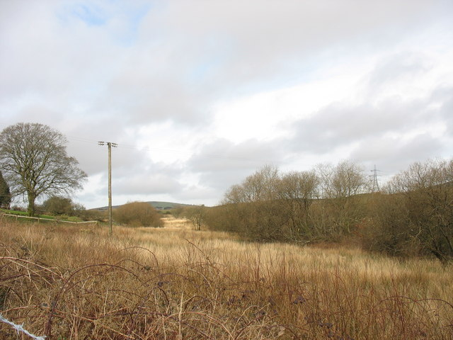 Cors Gyfelog Nature Reserve - the habitat of Drepanocladus vernicosus